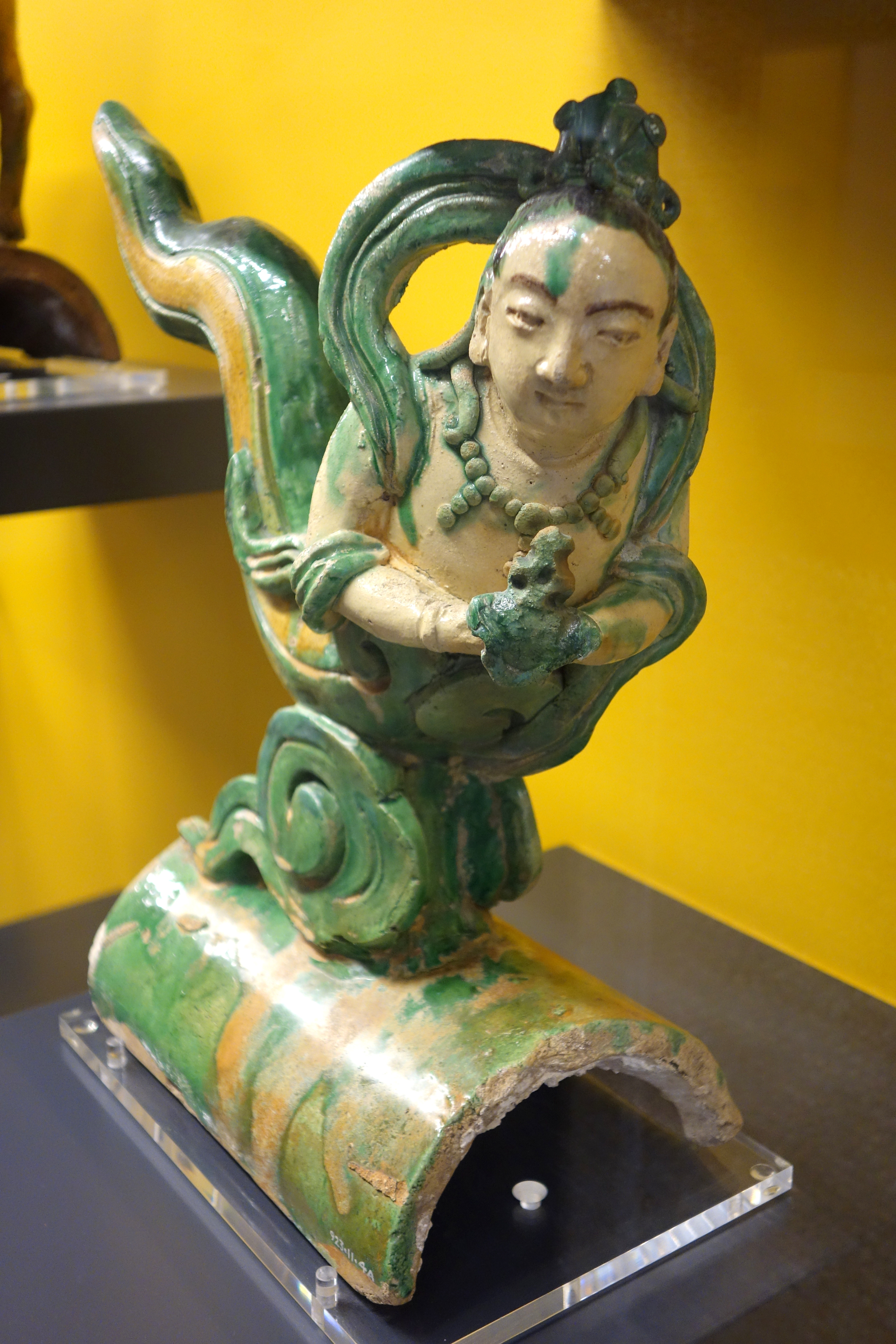 Exhibit in the Royal Ontario Museum, Toronto, Ontario, Canada. This work is old enough so that it is in the public domain.